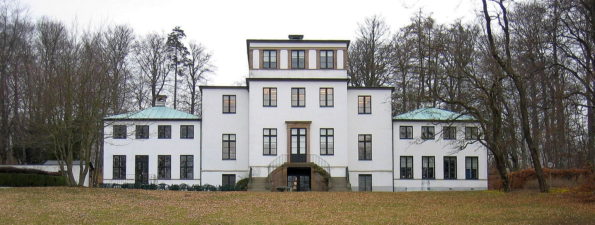 Sophienholm, Lyngby, Denmark.